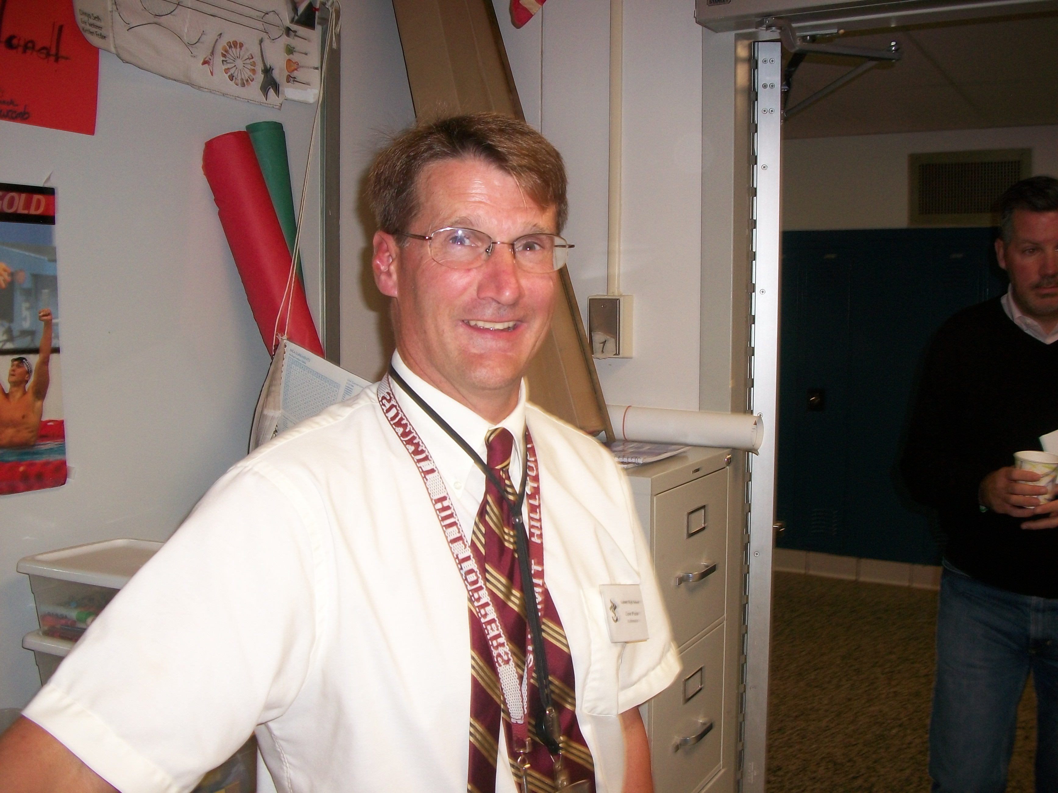 David Pease, on back to school night, poses questions to parents. If xy=24, xz=48, and yz=72, and x and y and z are positive, what's x+y+z? After two minutes, he called on your photographer. I didn't know then. Another parent got the right answer. Later, I figured it was 22, right? The mathematics curriculum is college preparatory (geometry) covers equations and inequalities, number systems, algebraic language, relations, functions, graphing. Photo taken with Mr. Pease's permission. Questions? Email him at (School: Summit Senior High School, Summit, New Jersey